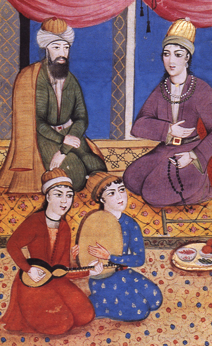 Painting is more than 200 years old. It is by "Agha Bagher", the celebrated pupil of Ali Ashraf. The Drawing appears in a manuscript of Divan of Hafez dated 1790.